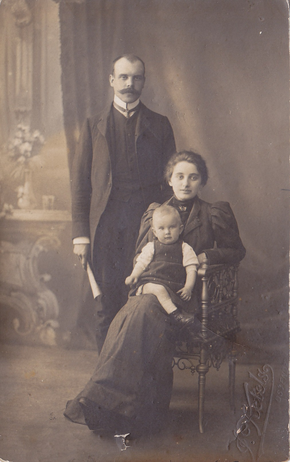 Przemyslaw and Anna Podgorski together with their daughter Maria